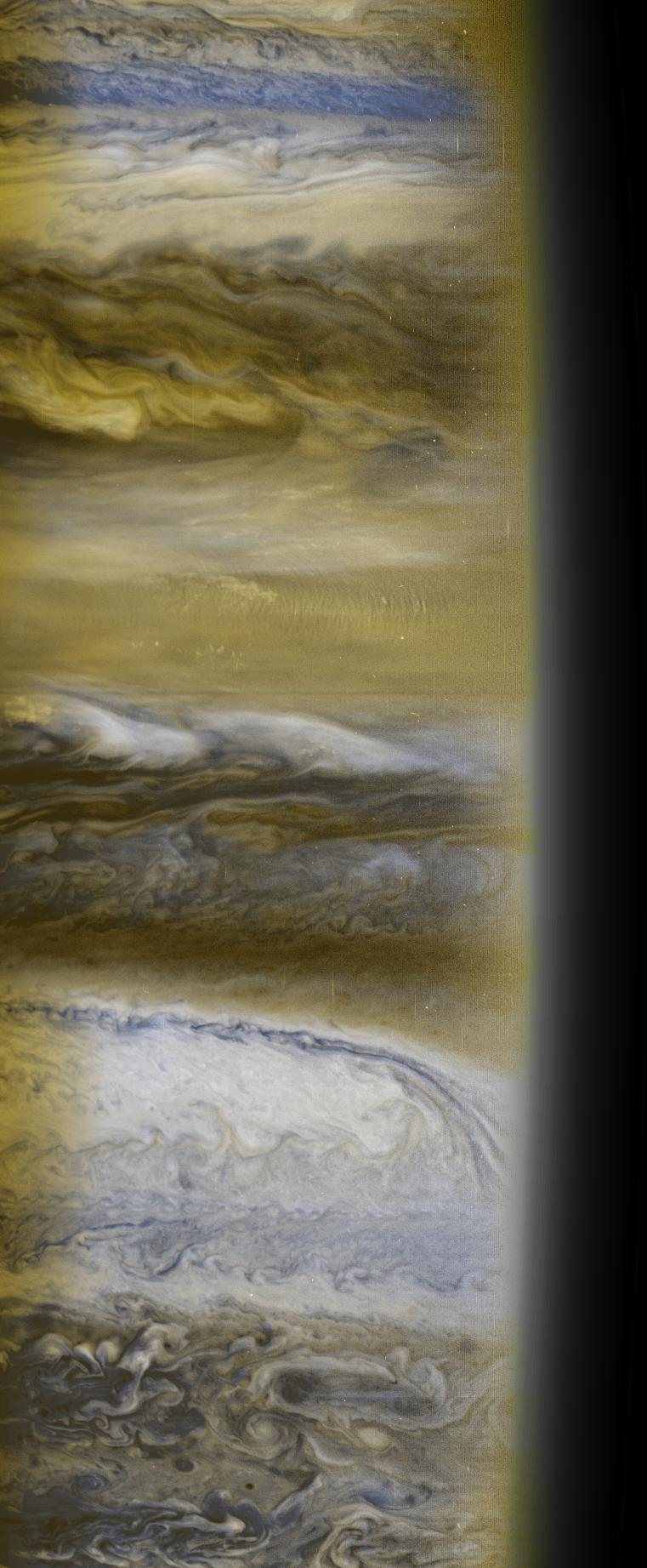 This is a composite of several images taken in several colors by the New Horizons Multispectral Visual Imaging Camera, or MVIC. It illustrates the remarkable diversity of structures in Jupiter's atmosphere, in colors similar to what someone "riding" on New Horizons would see. It was taken near the terminator, the boundary between day and night, and shows relatively small-scale, turbulent, whirlpool-like structures near the south pole of the planet. The dark "holes" in this region are actually places where there is very little cloud cover, so sunlight is not reflected back to the camera. Moving toward the equator, the atmospheric structures become more elongated in an east-west direction, taking on the familiar pattern of dark "belts" and light "zones." At the equator itself, a herringbone pattern of clouds known as "mesoscale waves" is apparent, especially near the edge of the terminator where the glancing angle of sunlight emphasizes the alternating dark and light North-South stripes. The energy to form these waves comes from deeper in Jupiter's atmosphere. This picture provides a vivid illustration that Jupiter's atmosphere has more color contrast than any other atmosphere in the solar system, including Earth's. Data obtained from these and other New Horizons images taken during the encounter will provide valuable insight into the processes occurring on this gas giant.